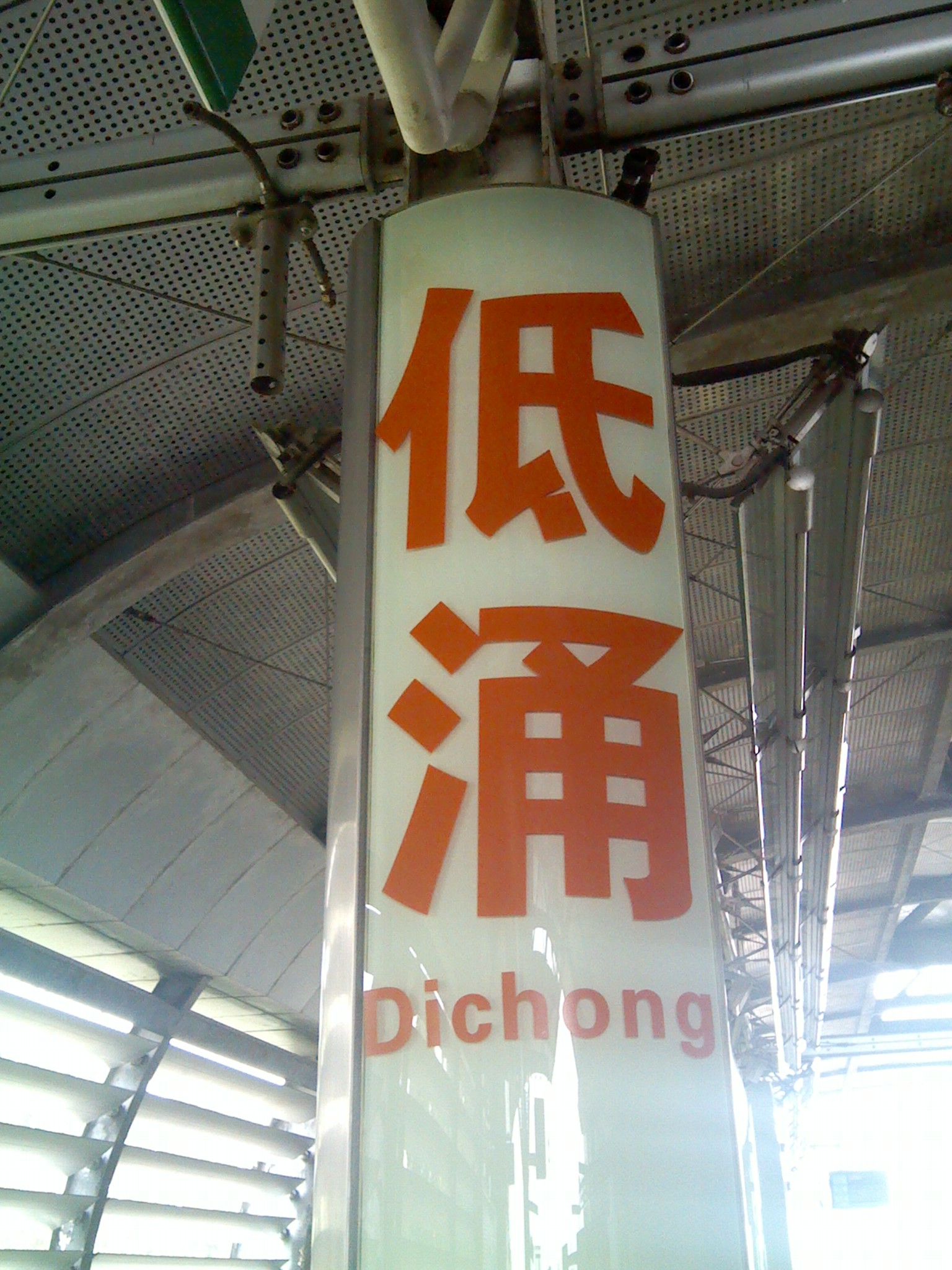 低涌站柱子上的站名